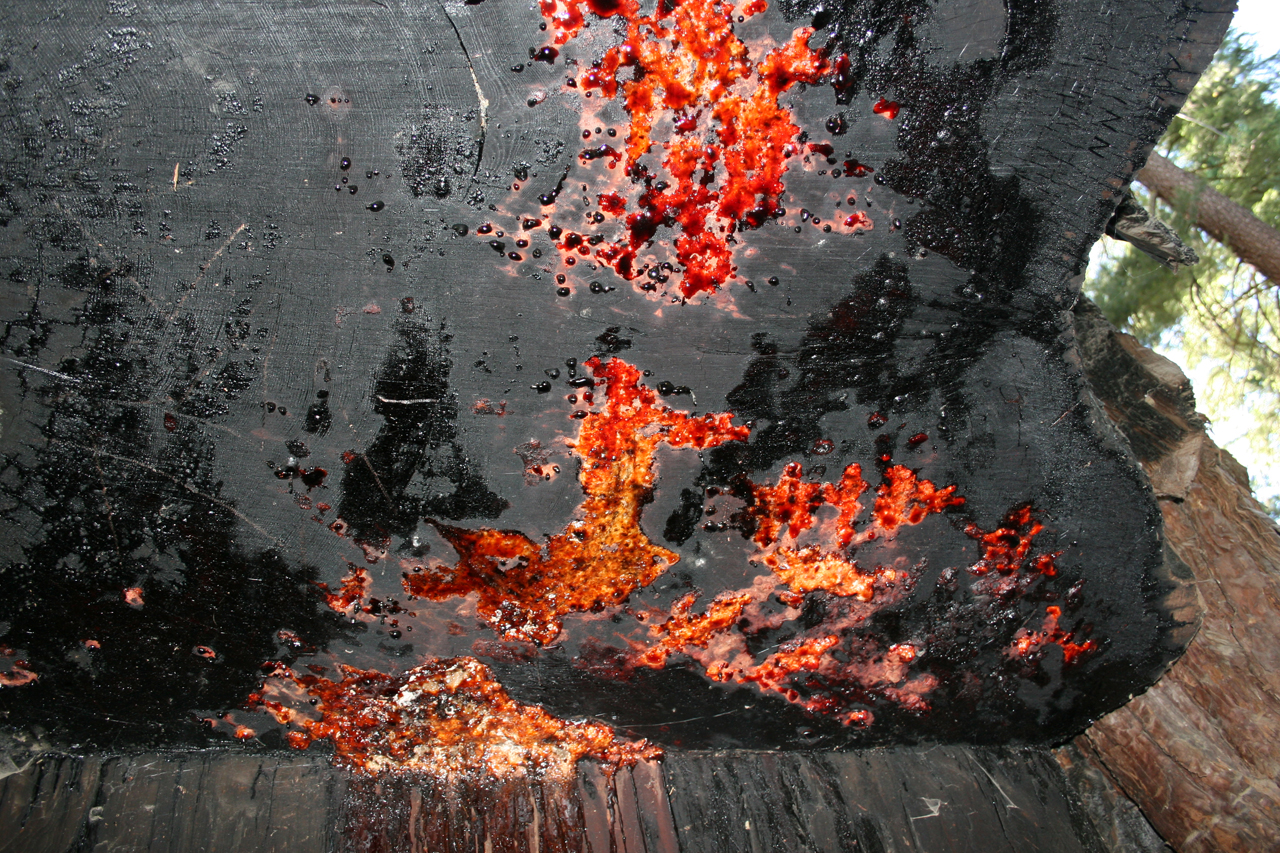 Dried sap seen in a sequoia tree tunnel